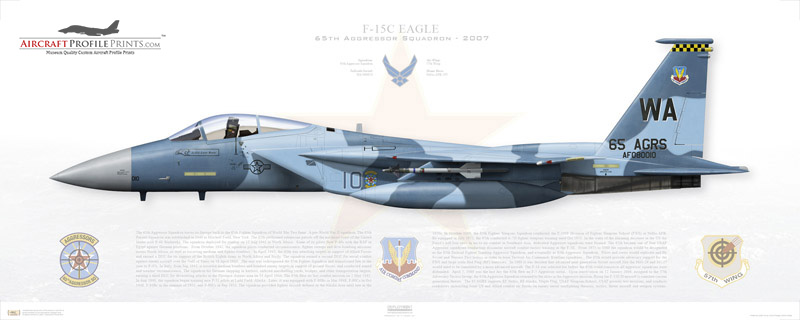 Aircraft Illustration of F-15C Eagle 57th Wg, 65th Aggressor Squadron, AW/080010 - Nellis AFB, NV - 2007 - by